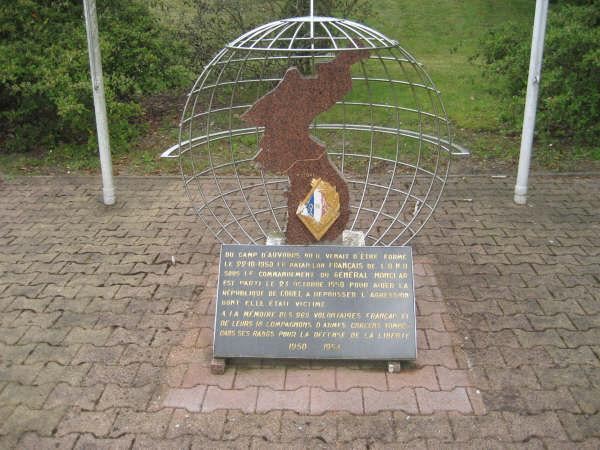 Badge and plaque to commemorate the battalion corée 1950-1953, French battalion of UN.